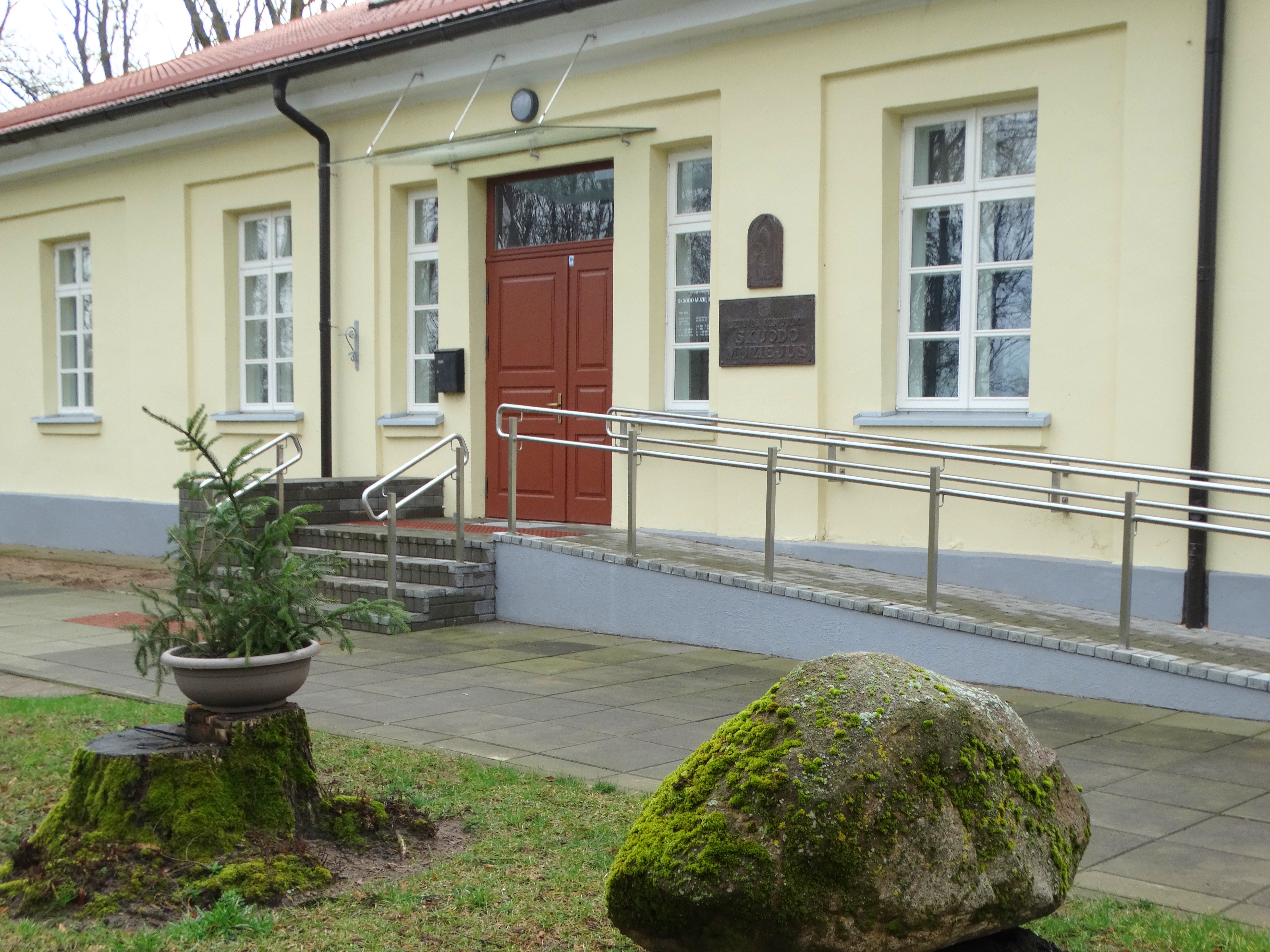 Former manor, museum, Skuodas, Lithuania